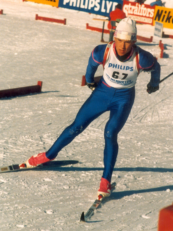 Eirik Kvalfoss at the World Championships 1986 in Oslo.